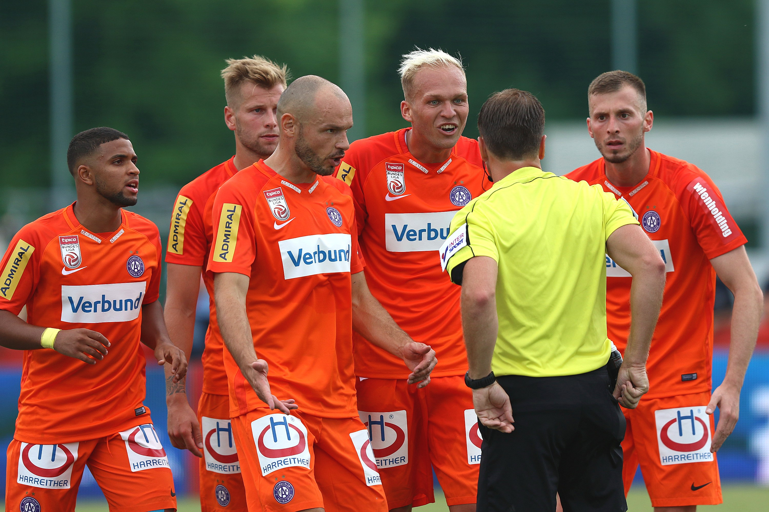 2017–18 Austrian Cup - ASK Ebreichsdorf (blue shirts) vs. FK Austria Wien (orange shirts) 0-0, penaltyscore 3-4. – The photo shows from left to right Ismael Tajouri, Alexander Grünwald, Heiko Westermann, Raphael Holzhauser (after his red card), referee Dieter Muckenhammer and Petar Filipovic.